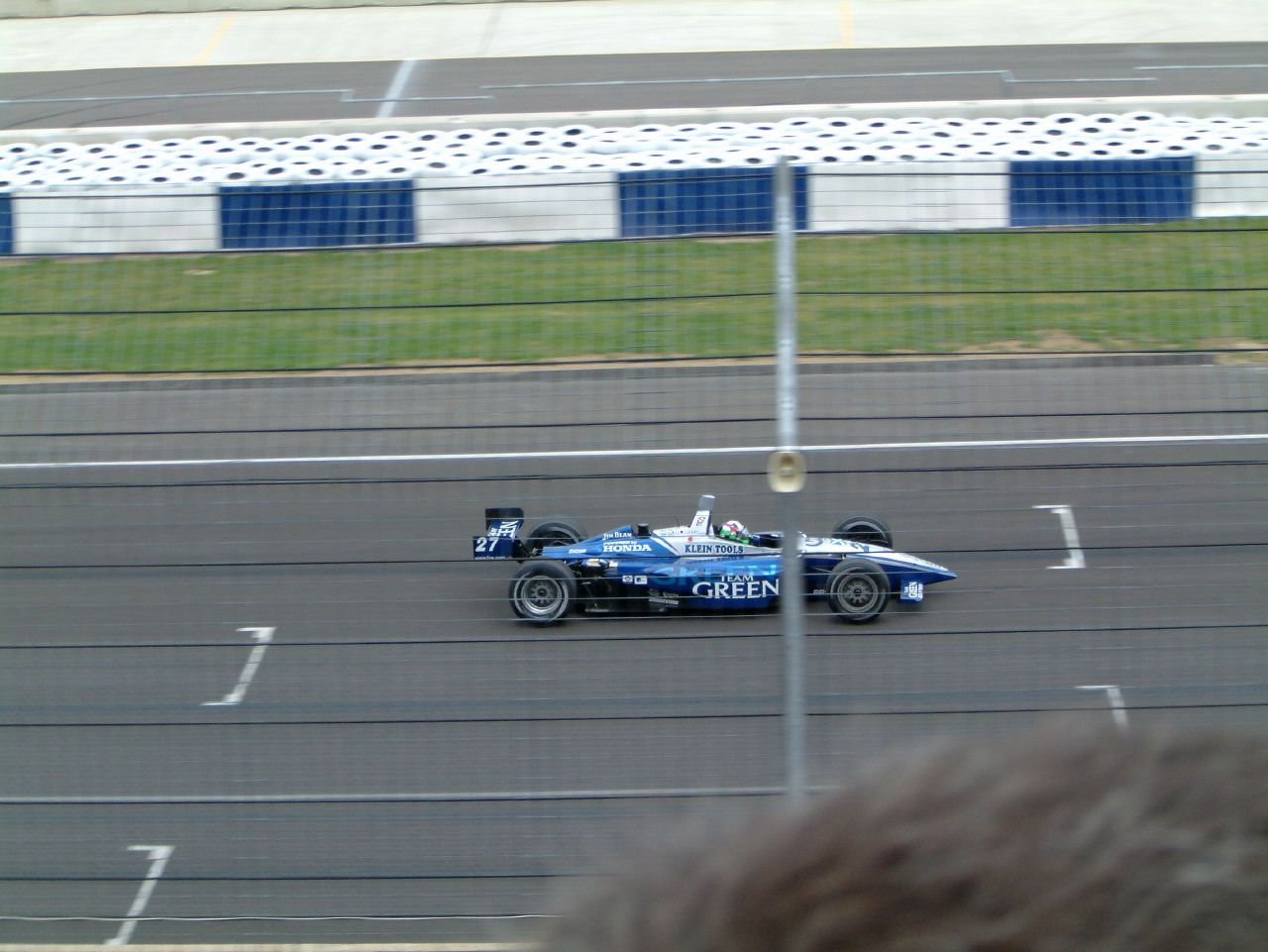 Dario Franchitti driving for Team Green at the 2002 Sure For Men Rockingham 500